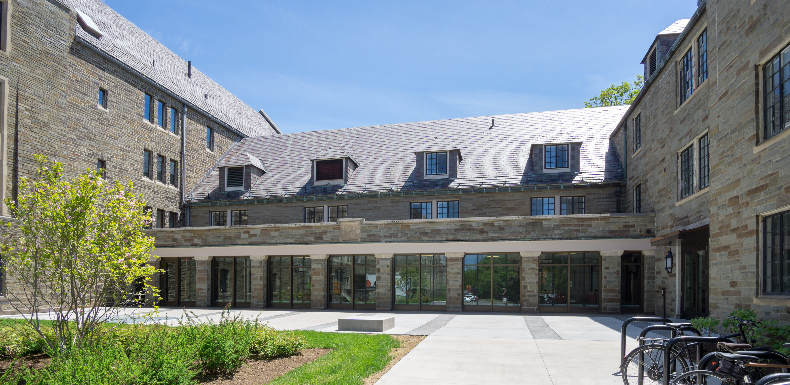 Hughes Hall after 2017 renovation. Cornell University, Ithaca, NY